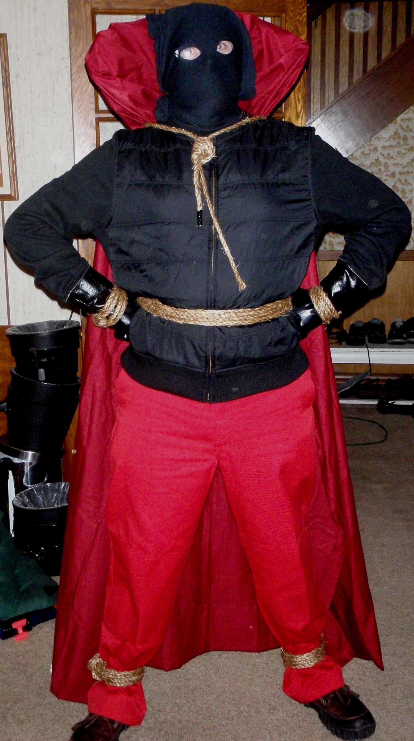 Hooded Justice from the Watchmen universe (cosplay). Taken on March 5, 2009.